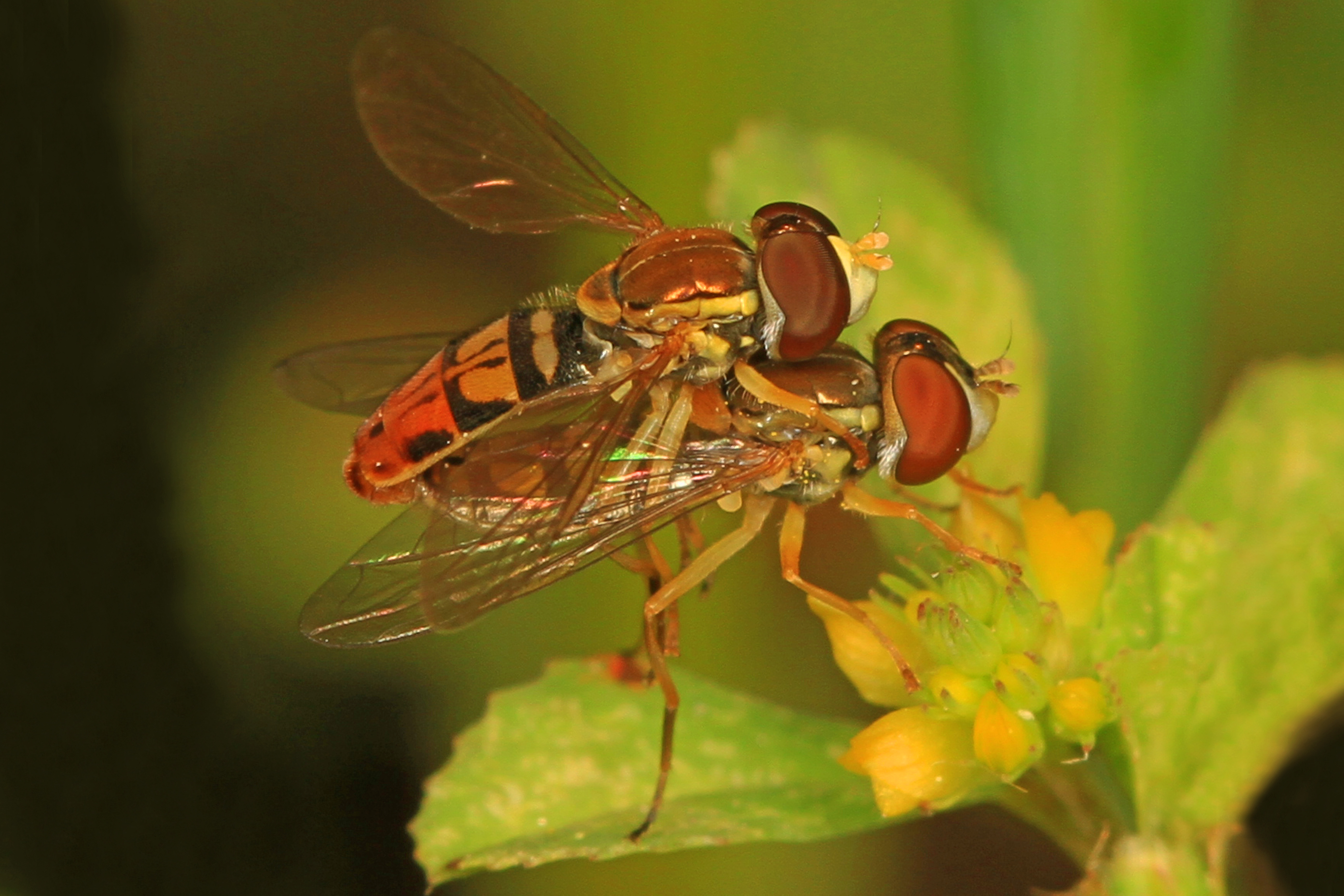 Syrphids - Toxomerus marginatus, Catahoula National Wildlife Refuge, Louisiana.